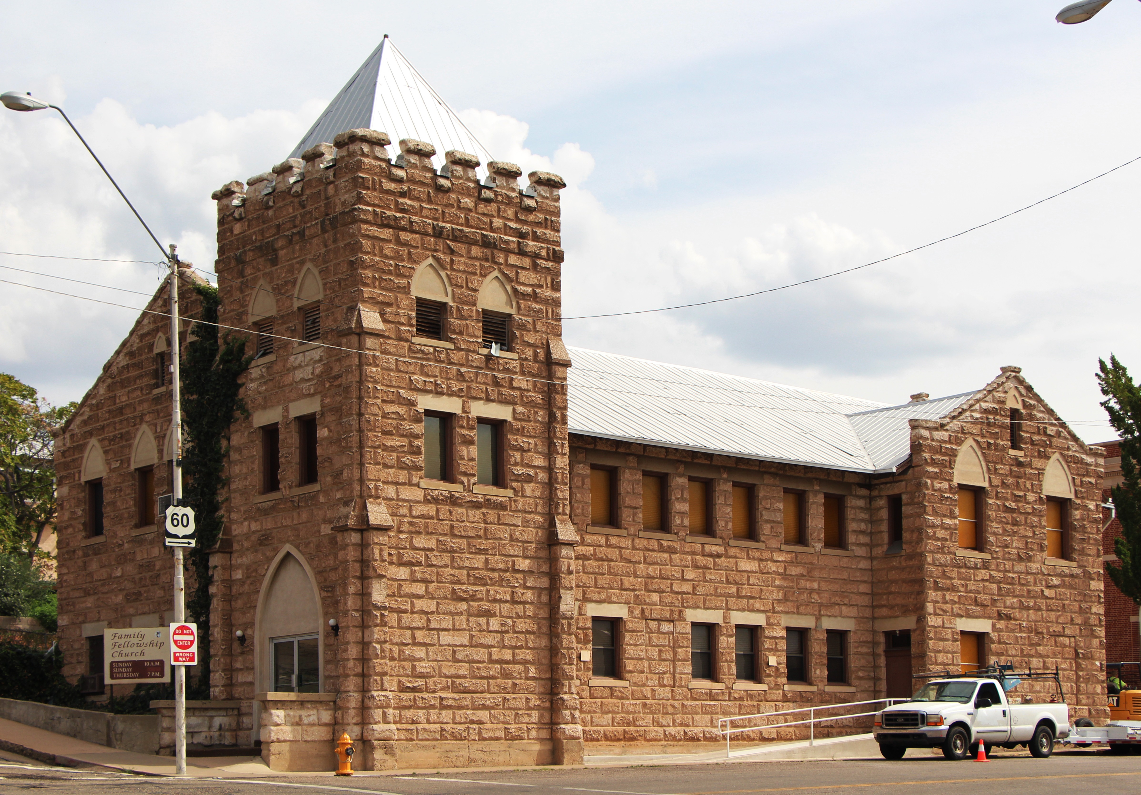 First Baptist Church, southeast corner of Hill Street and Oak Street, Globe, AZ